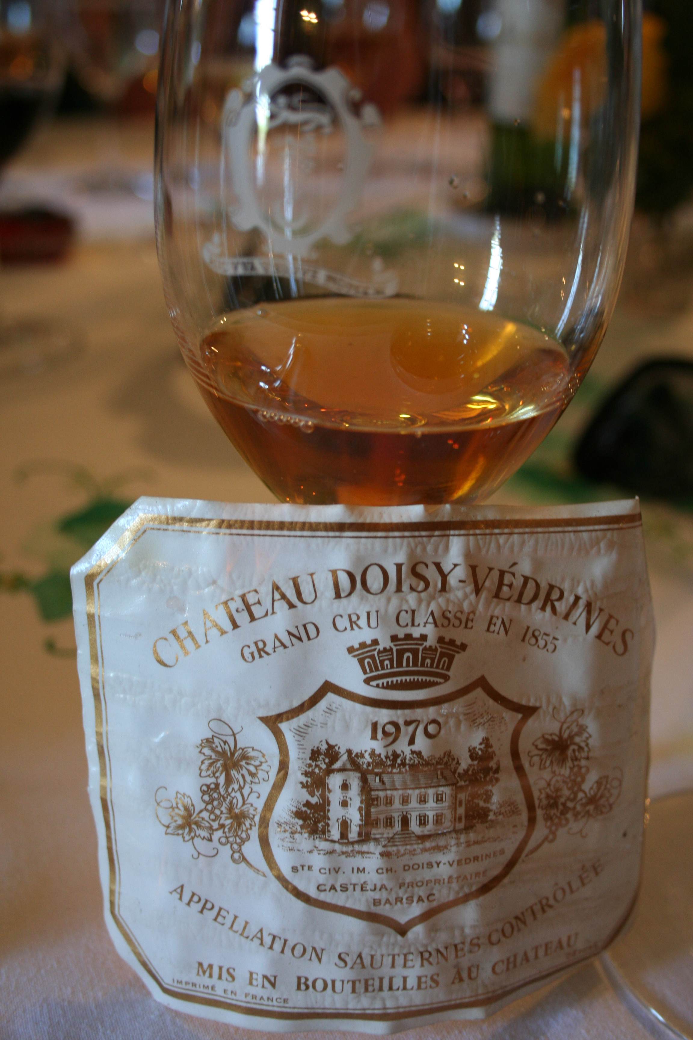 A glass of the French dessert wine from Bordeaux